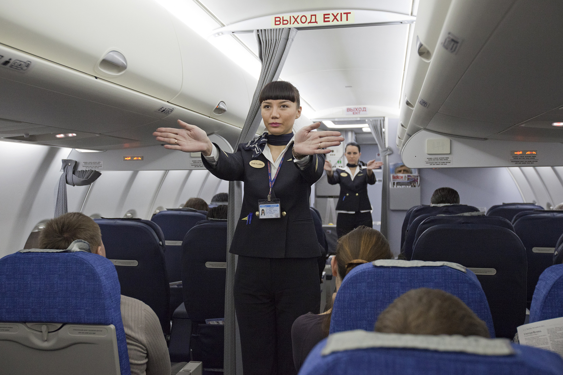 Aeroflot puts its third Sukhoi Superjet 100 aircraft in operation. The airliner, named after the famous Aeroflot pilot Ivan Orlovets, performed its first scheduled flight SU713/714 on route Moscow – Nizhny Novgorod – Moscow.